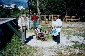 Playground in Koufi, Rethymno, Greece